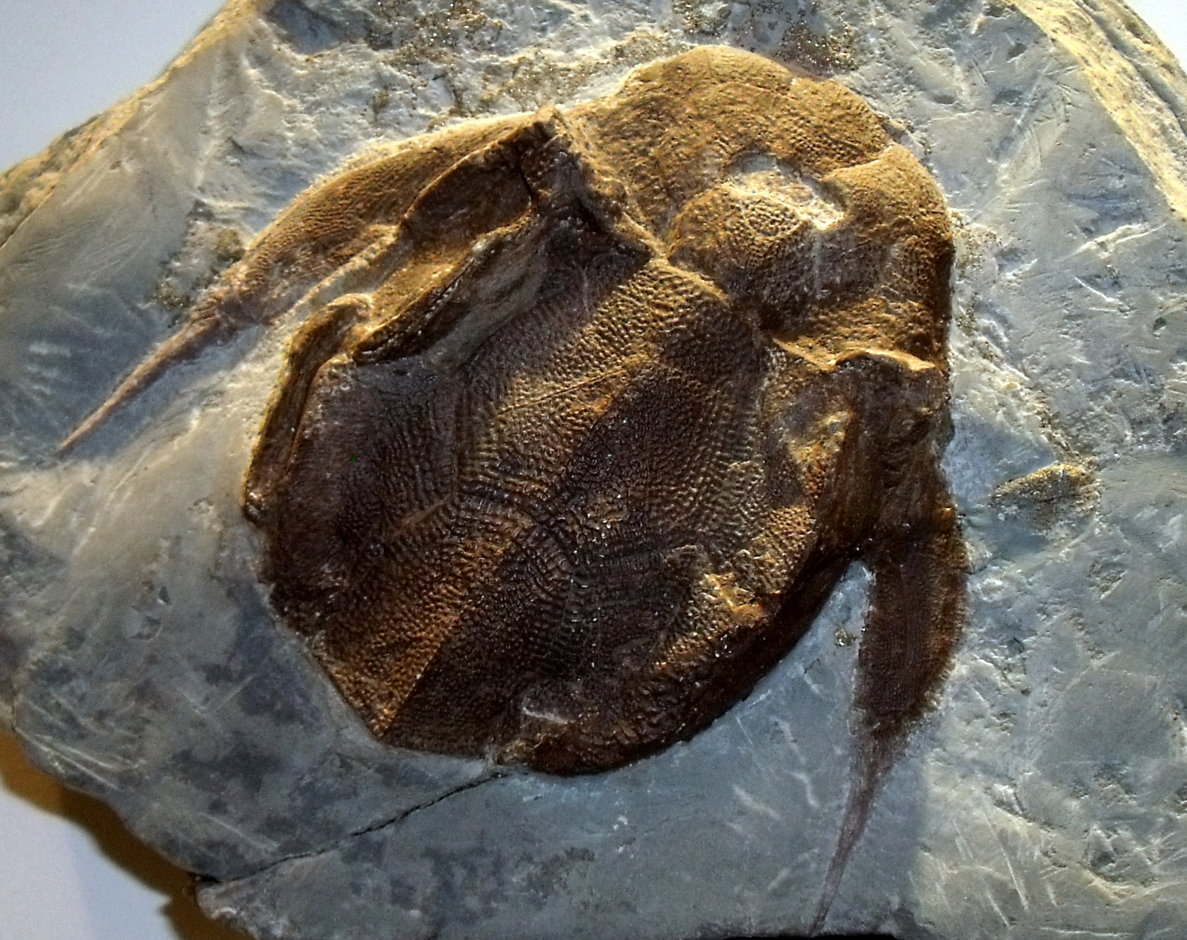 Well-prepared carapace of a placoderm or early jawed fish called Bothriolepis seen in a Quebec gift shop. The small fauna or more durable parts of larger creatures at Miguasha are of exceptional quality. Miguasha Provincial Park (a UNESCO World Heritage Site) lies on the south side of the Gaspe Peninsula, Quebec. It is considered to be one of the world's most important paleontological sites for fossils. For instance, 5 out 6 major fish groups of the Devonian are found here, including 1000s of Bothriaolepsis. Poor swimmers, armored placoderms are the only extinct major group of fishes not around today. Or so they say, but let's not forget the much larger living fossil coelacanth recently recovered from the depths of deep time...